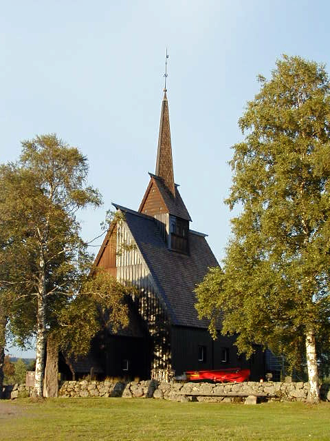 'Høyjord Stave Church of Høyjord in Vestfold County, Norway. Photo by User:ToB (Tom Bjornstad, Norway)